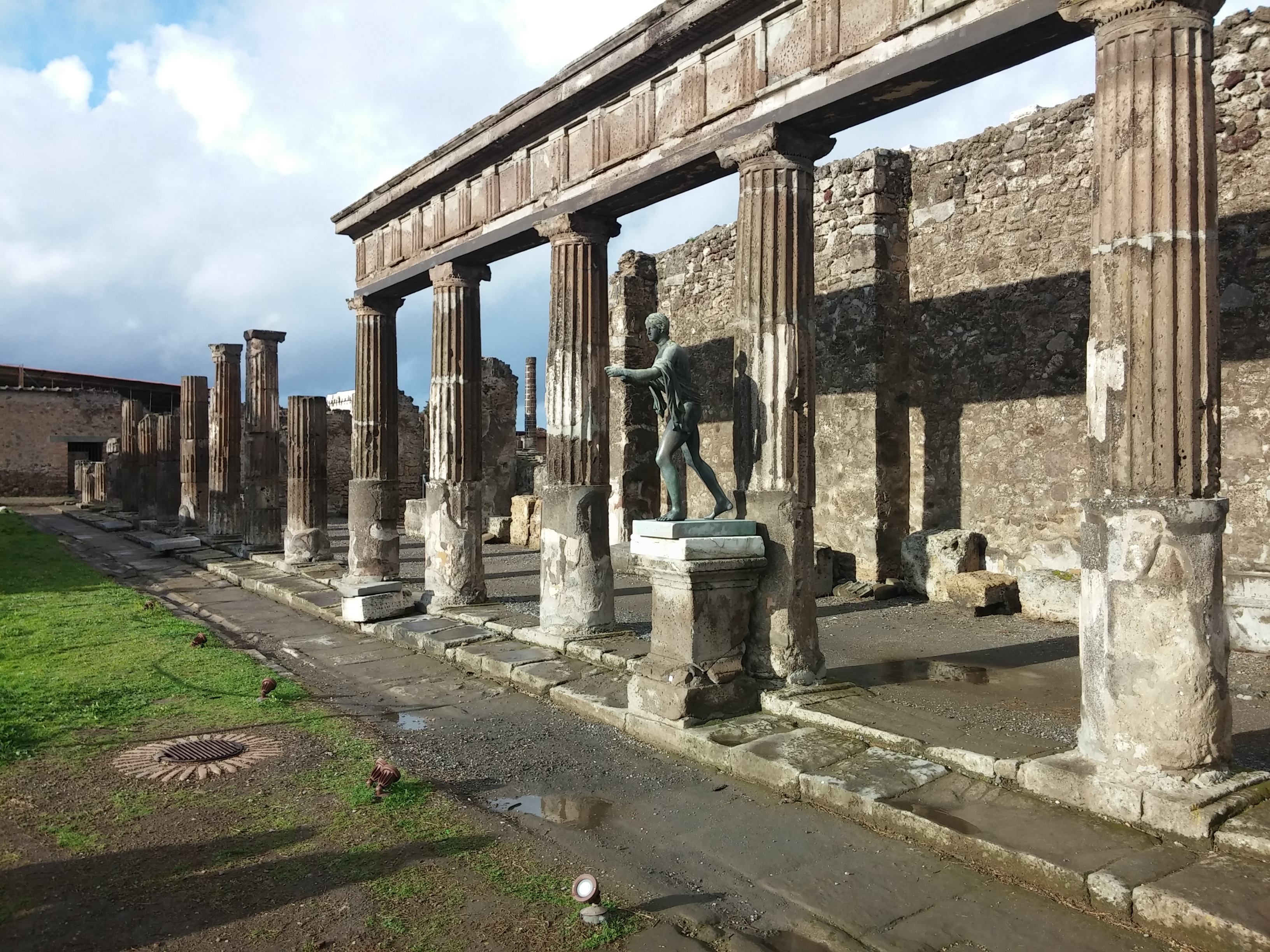 Part of the complex of the Temple of Apollo in Pompeii, with the bronze statue of the god. Photo taken on 6 March 2018.